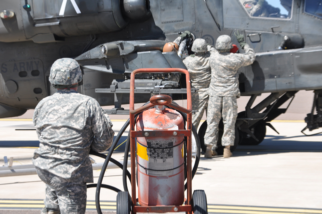 Soldiers conduct a "hot" (engine running) refuel of an AH-64D Apache helicopter at the Butts Army Airfield, Fort carson, Colorado